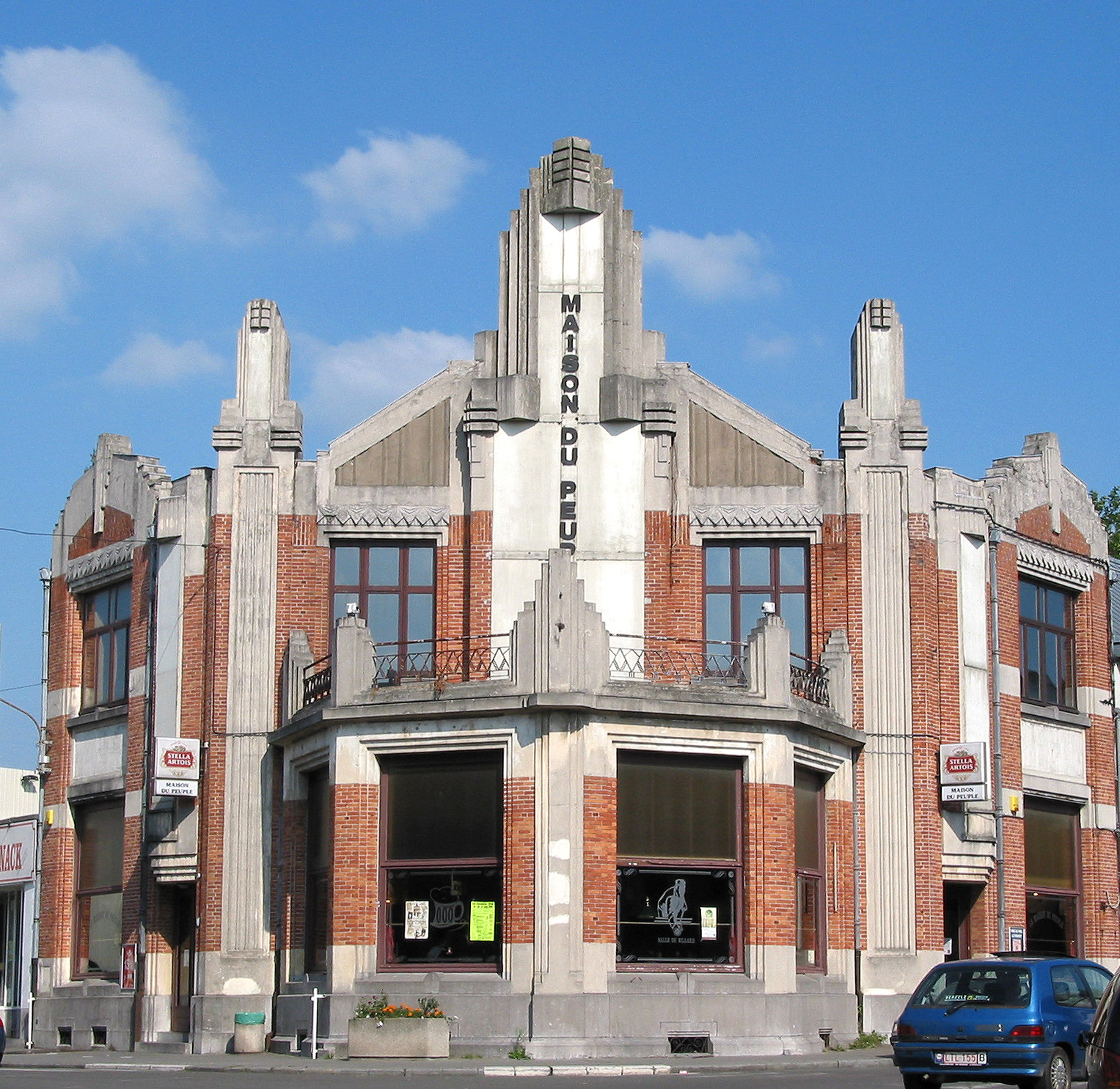 Dour (Belgium), the house of the people.